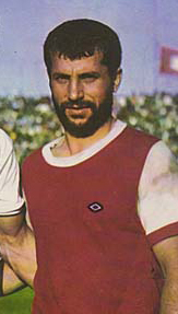 Ali Parvin before Persepolis' match against Shahbaz in Aryamehr Stadium in Tehran in April 1978